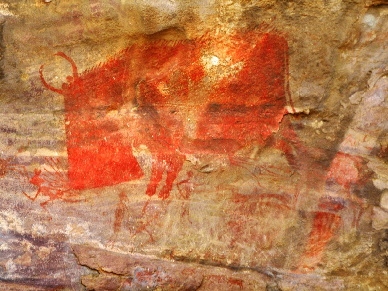 This is the only painting at Bhimbetka which shows man being the hunted instead of being the hunter. Tip for people who may want to go there: There are guides available from the Madhya Pradesh State Department of Tourism at that site. Be careful though. Those guys would probably show you only a small part of that area and not the whole place. In case you want to see all the paintings, do not hesitate to take the lead and wander off into other places which the guide didn't show you(only where the walkways go though; don't wander off into the bushes :P). In fact, this is how I got this picture. It was little away from the main area where most of the paintings are.